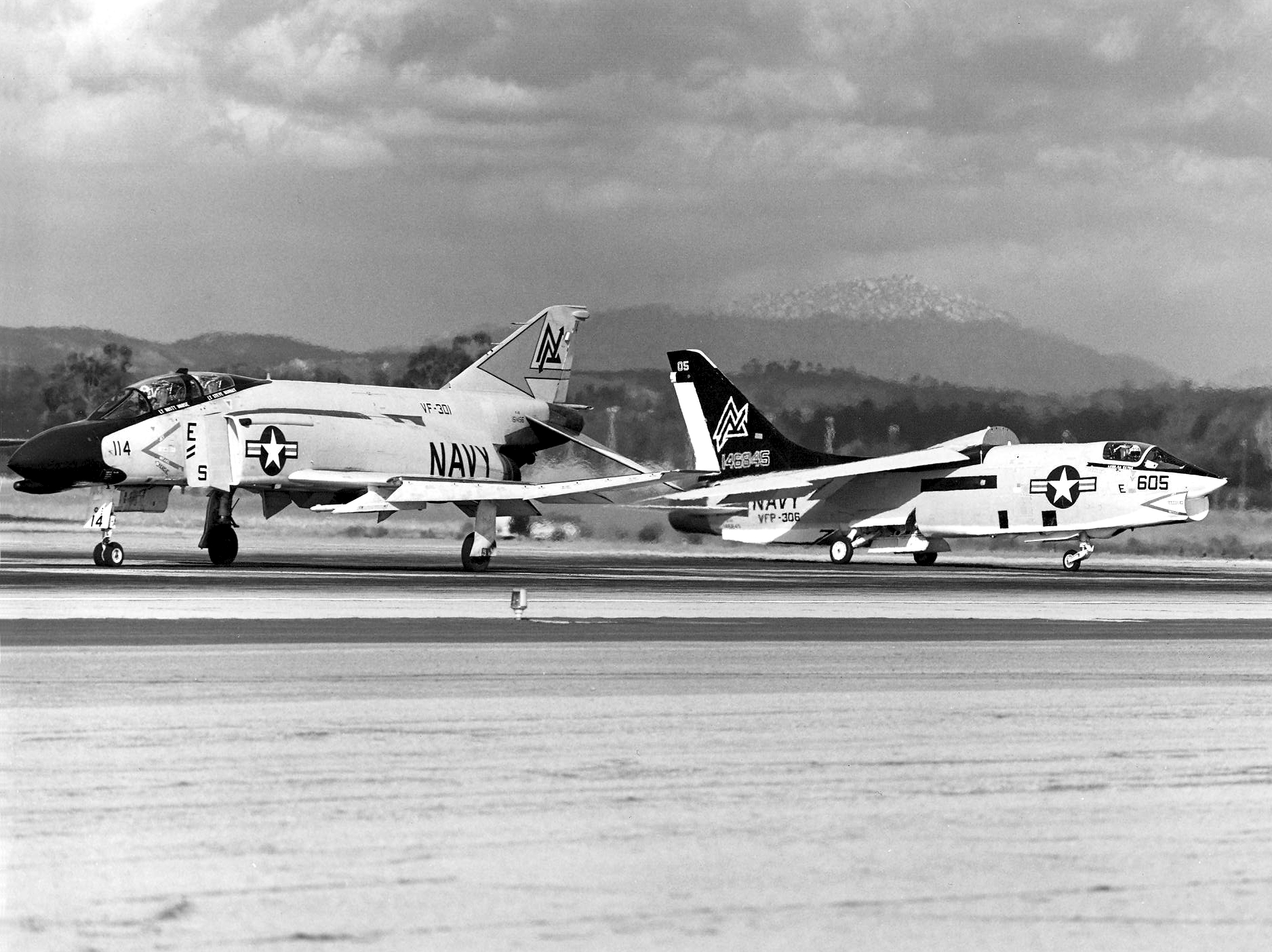 A U.S. Naval Air Reserve McDonnell F-4N Phantom II (BuNo 151456) of Fighter Squadron VF-301 and a Vought RF-8G Crusader (BuNo 146845) of Photographic Reconnaissance Squadron VFP-306 at Naval Air Station Miramar, California (USA), in 1978. The F-4N 151456 was retired to the MASDC as 8F0155 on 2 February 1984, the RF-8G 146845 was retired as 2F0433 on 25 September 1984.